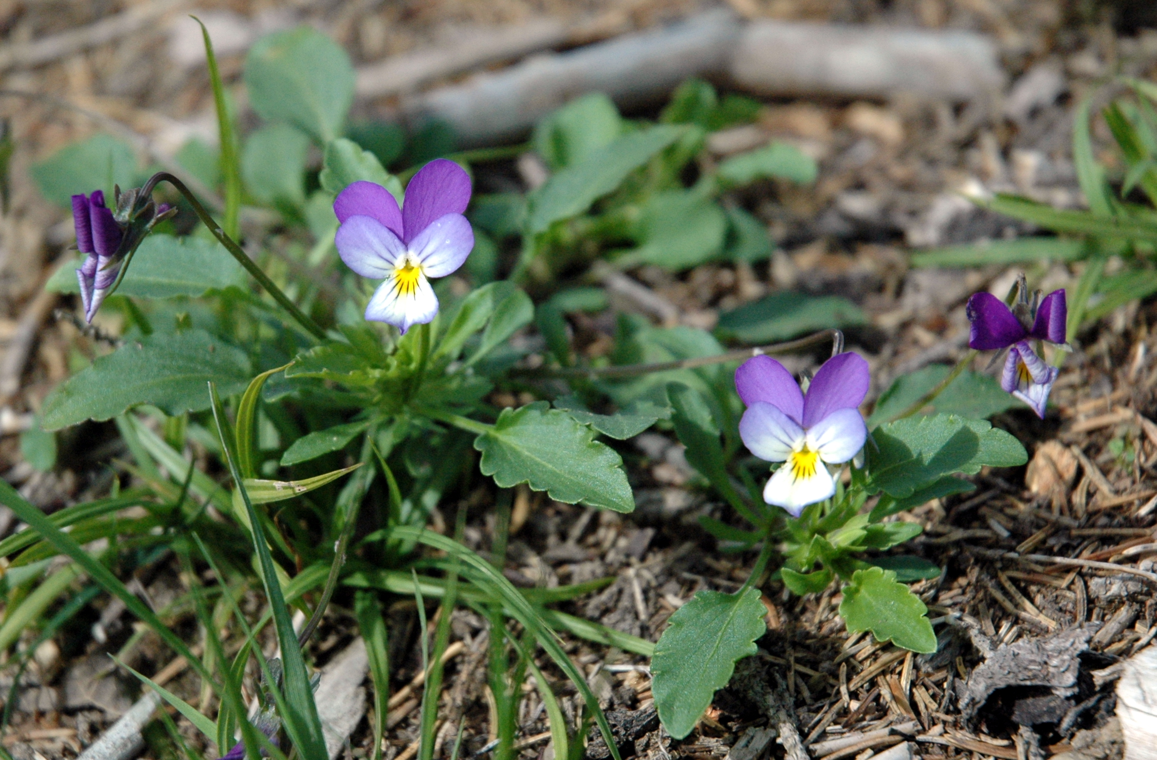 Viola tricolor. Found in wood south of Oslo, Norway.